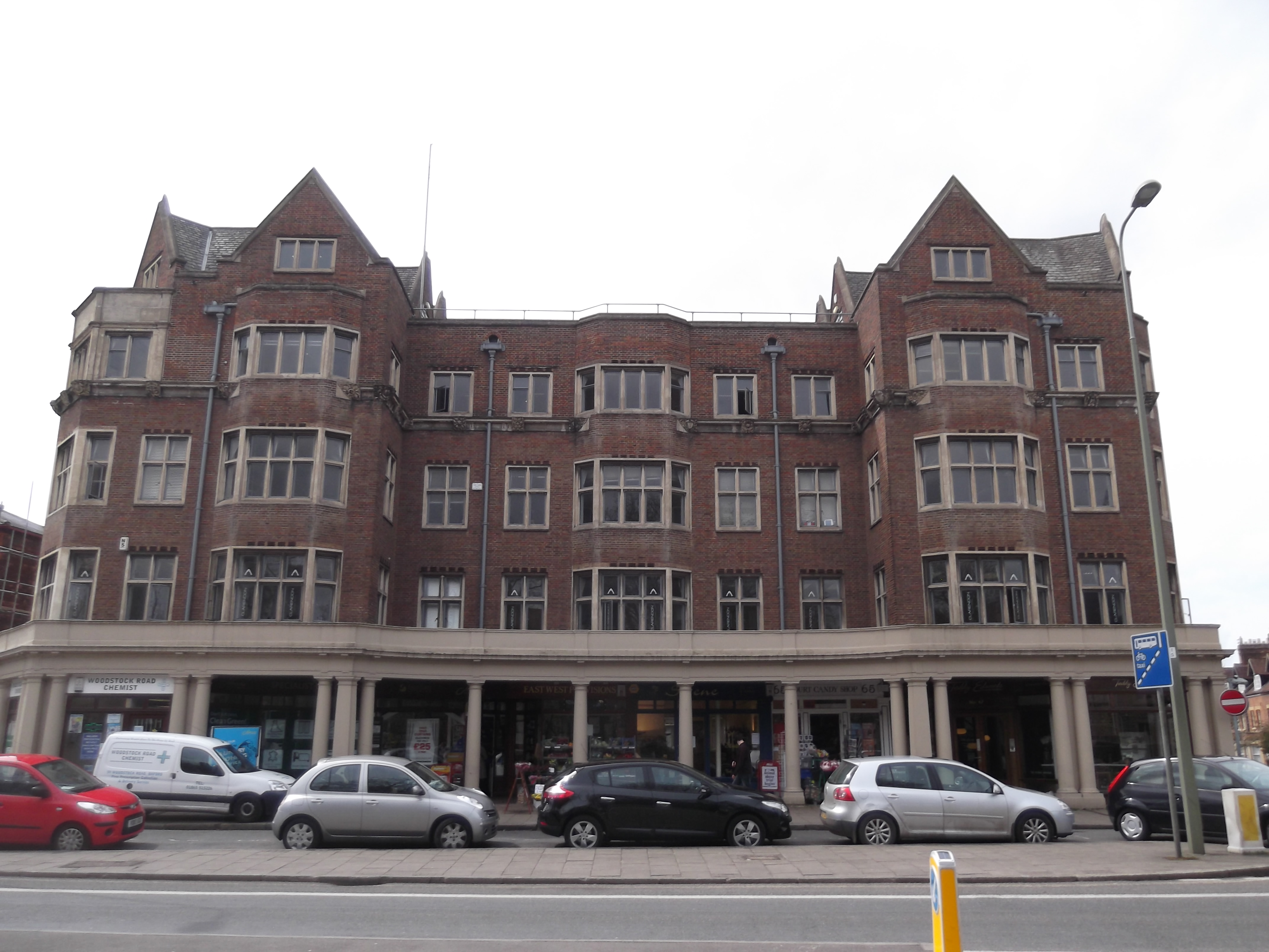 The east front of Belsyre Court, Woodstock Road, Oxford, England